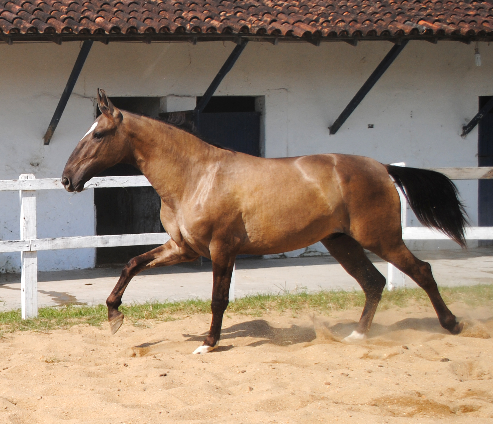 This image showed near full extension in the Marcha, the smooth four beat gait associated with this animal.